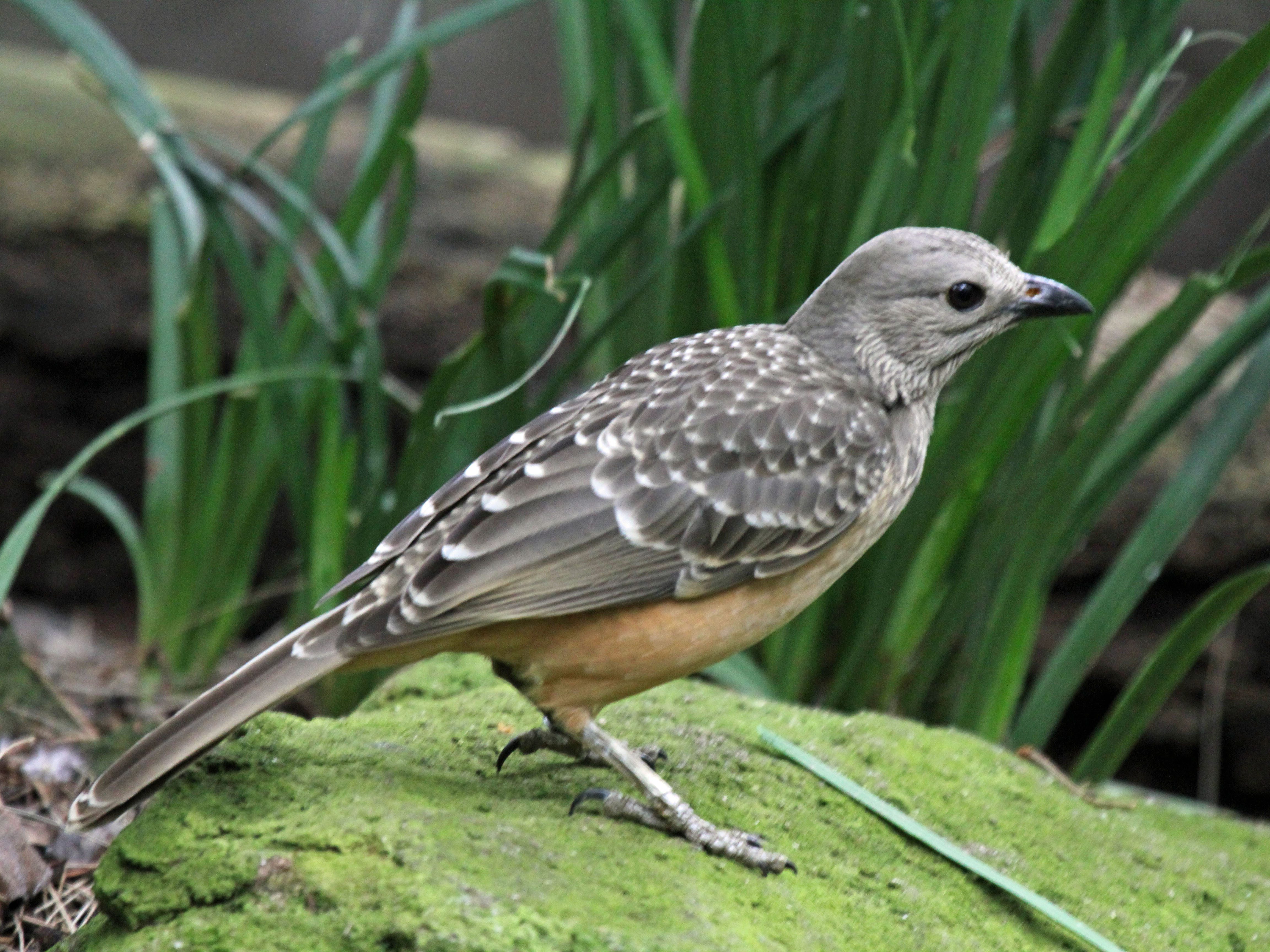 Fawn-breasted Bowerbird (Chlamydera cerviniventris) - San Diego Zoo